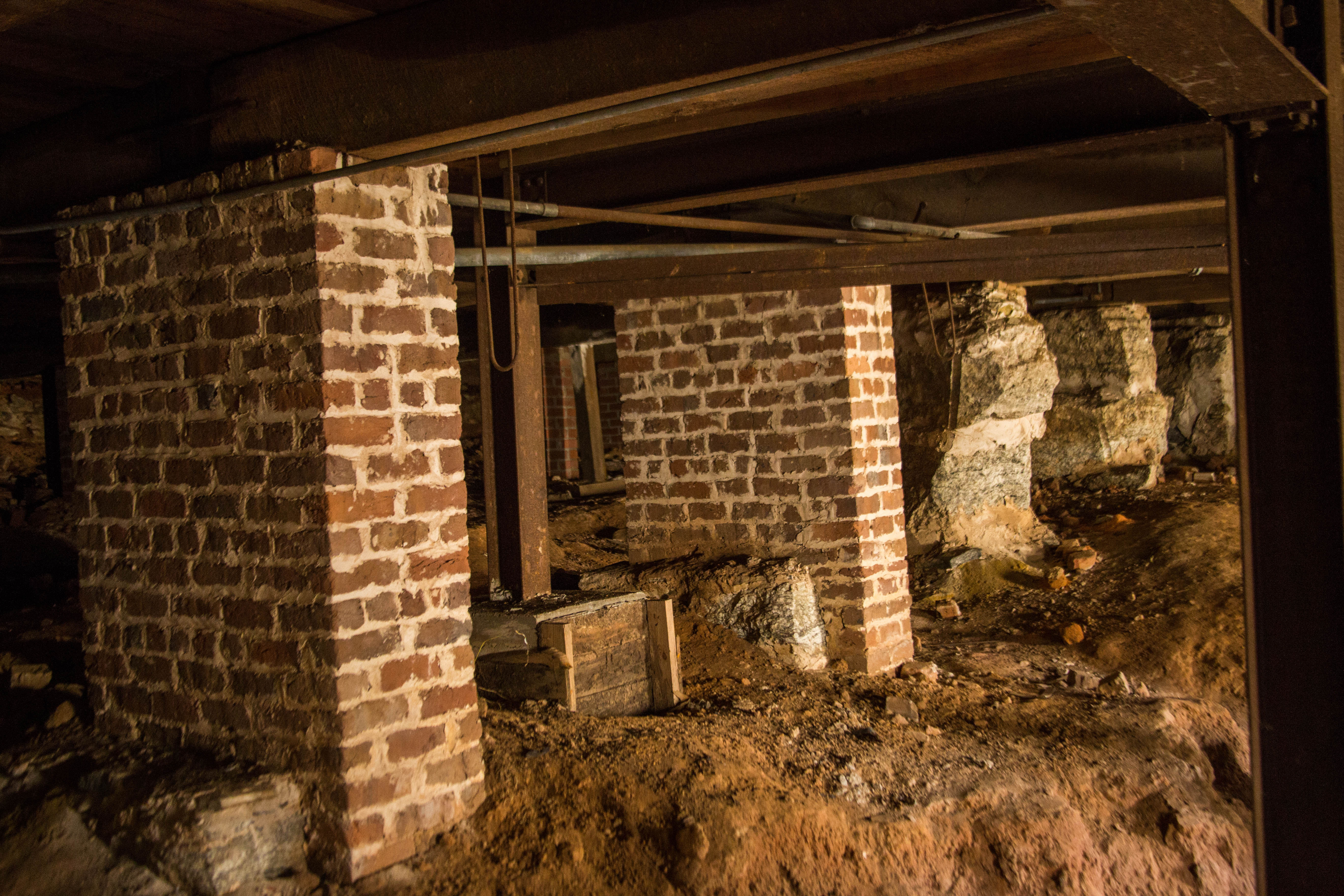 Double Shoals Cotton Millthe foundation